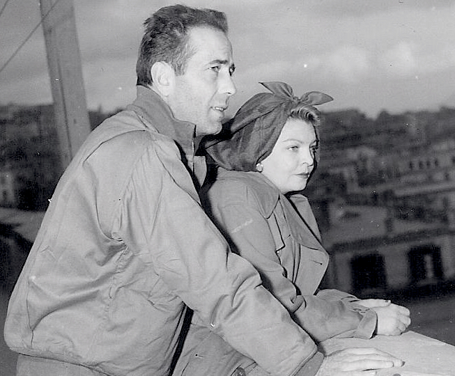 Humphrey Bogart and Mayo Method visiting Naples, Italy, December 1943.